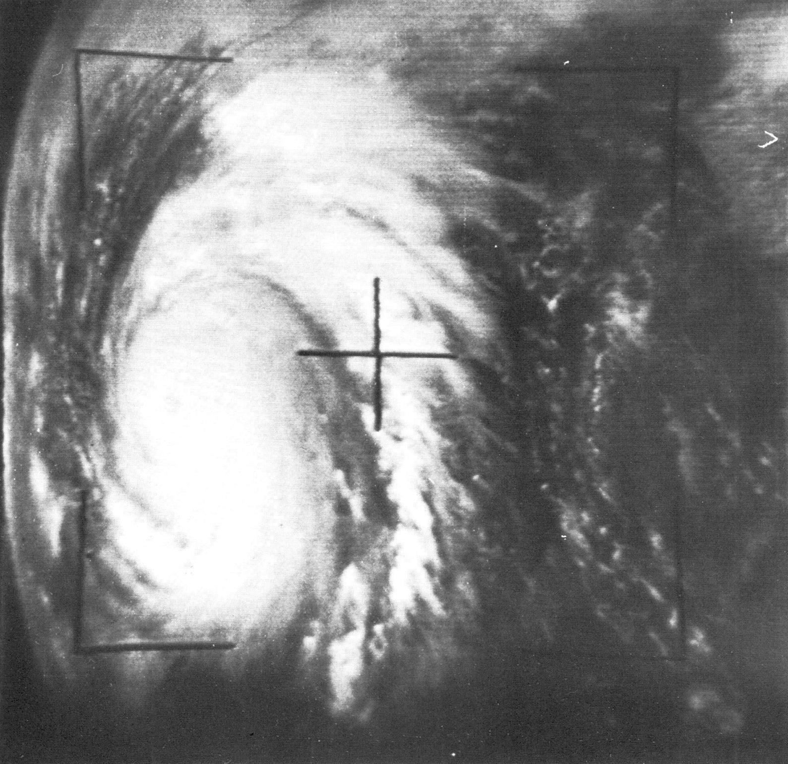 Satellite image of Hurricane Hilda at its peak intensity as a Category 4 hurricane in the Gulf of Mexico on October 1, 1964.